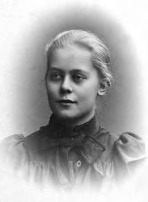 Ilona Jalava (1906–1960), Finnish textile designer. Photo by K.-E. Ståhlberg, Helsinki, from the collections of National Board of Antiquities.